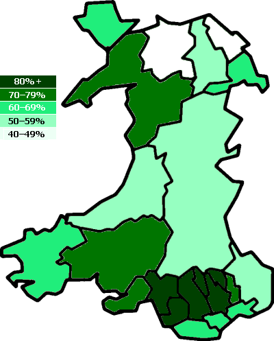 Map of Wales showing the percentage in every principal area that considered itself "Welsh" in 2006.